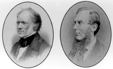 Engaving of Charles Lyell and Photograph of Joseph Dalton Hooker